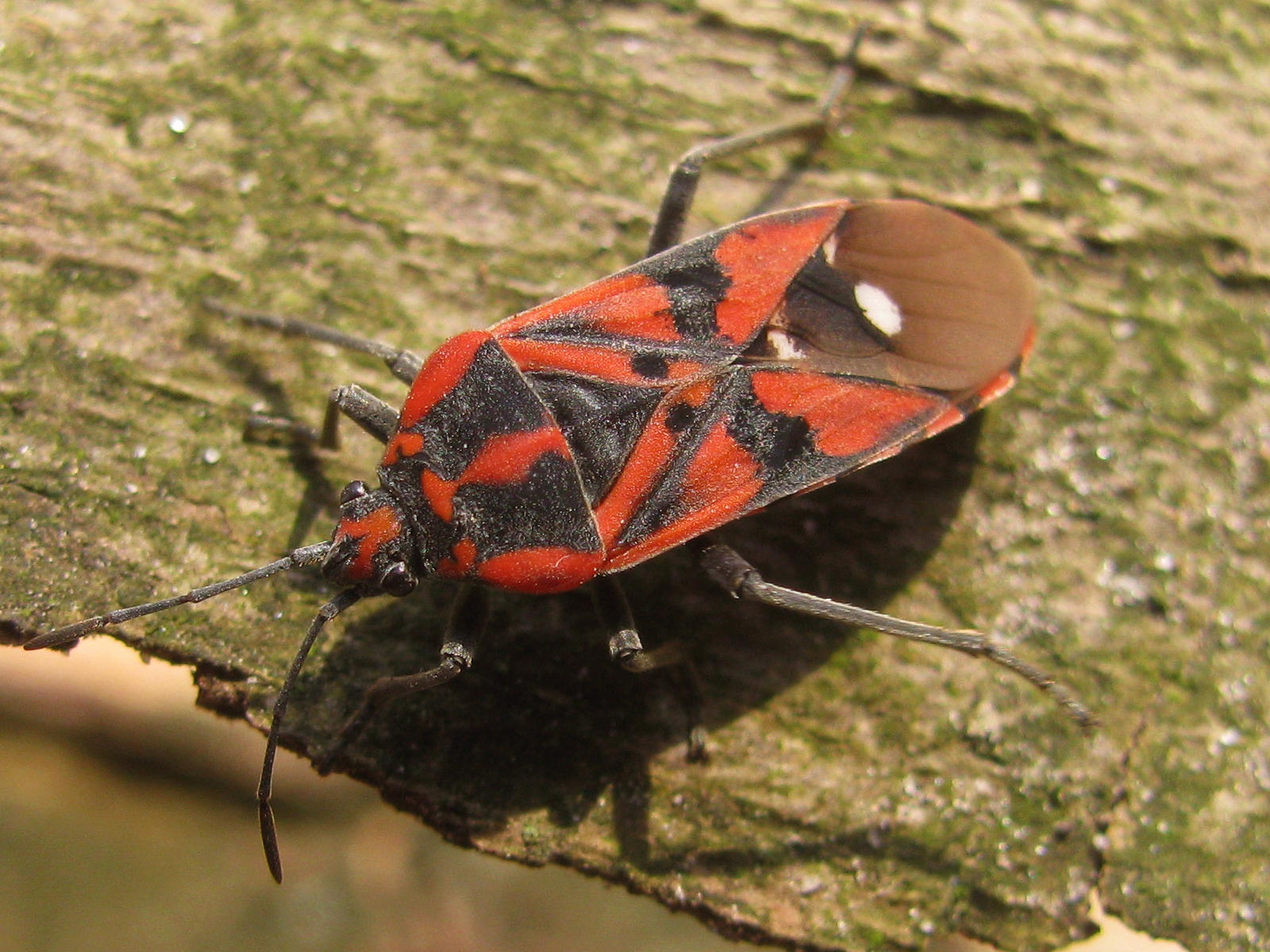 Spilostethus pandurus with aberrant pronotum (golden/brown stripes missing) from Ballans, Charente-Maritime, France